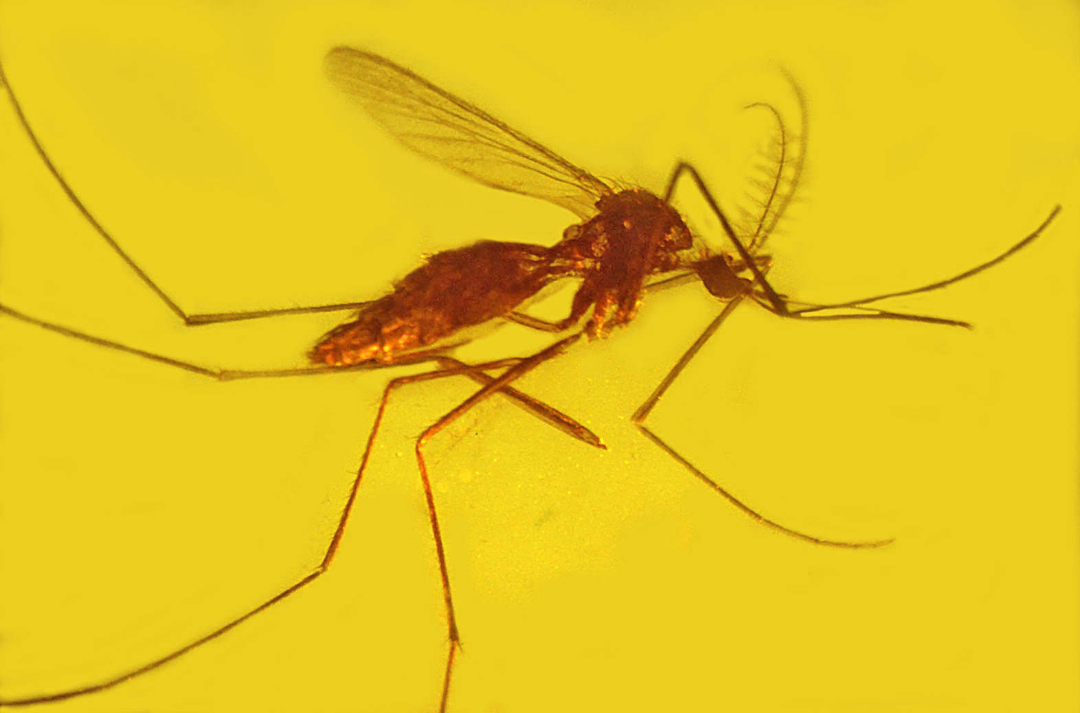 This culicine mosquite was discovered in amber from the Dominican Republic, and carried a type of Plasmodium malaria able to infect birds. It shows malaria was established in the New World at least 15 million years ago. (Photo courtesy of Oregon State University)